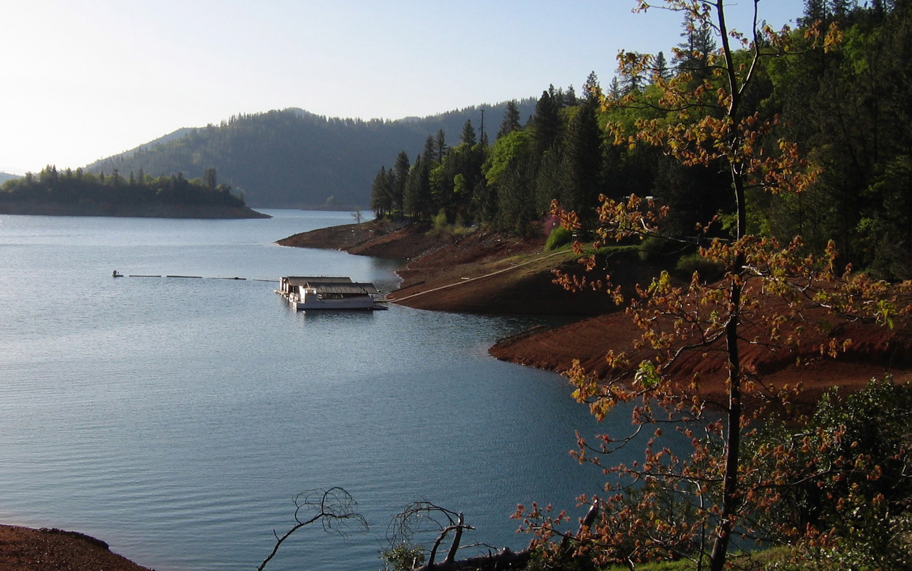 Category:Lakes of California Shasta Lake as seen from its designated vista point. Photograph taken by Triddle